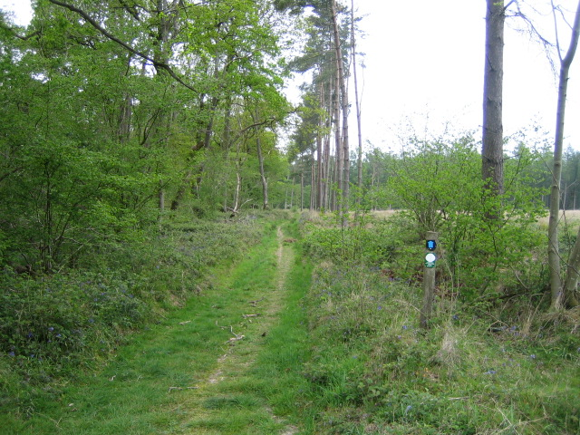 Great Ridge wood near Chicklade. Great Ridge wood lies on a ridge of chalk downland up to 225m high, capped by clay with flints, between the Wylye and Nadder valleys. The wood, which is 718 hectares, is owned by the Fonthill Estate and it remains in part an ancient oak woodland which is managed for nature conservation. It is also commercially forested with conifers as can be seen from the felled area to the right of the picture. The Fonthill Estate, which also operates a number of farms, is owned by the 3rd Lord Margadale, Alastair John Morrison, who lives at Fonthill House in Ridge near Tisbury. This track is a bridleway that runs from Hindon in the south to Corton in the north, and here it crosses north-south through Great Ridge wood at a height of 220m. See 465057 and 465089 for views in other directions from this point.